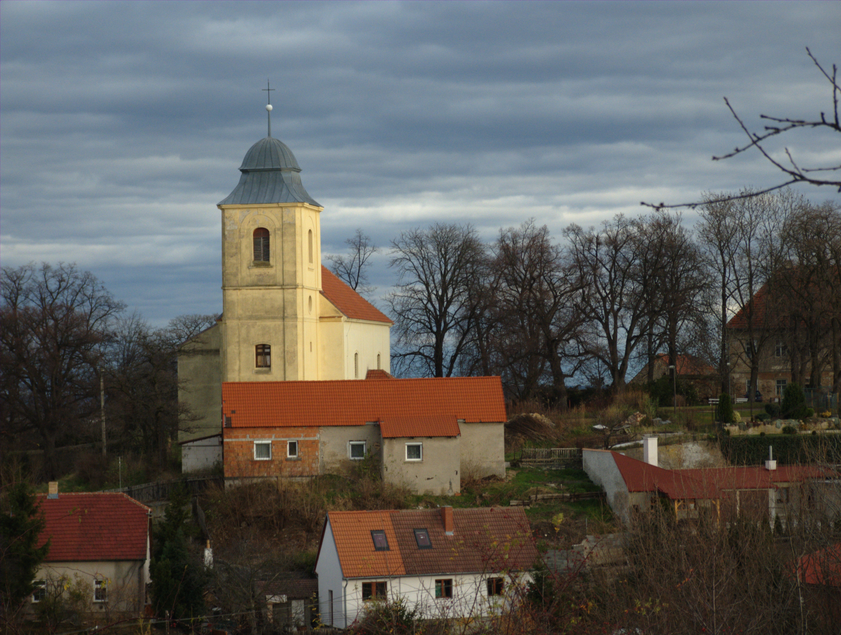 Dobřichov church seen from southwest, Central Bohemian Region, CZ This photograph was taken within the scope of the third year of the 'Czech Municipalities Photographs' grant.